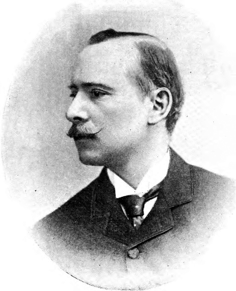 Picture of Frank Linsly James explorer killed 1890 in Africa